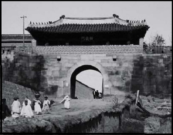 Historical image of Souimun Gate, also known as Southwest Gate, or Seosomun. Image was taken before 1914, when gate was destroyed.